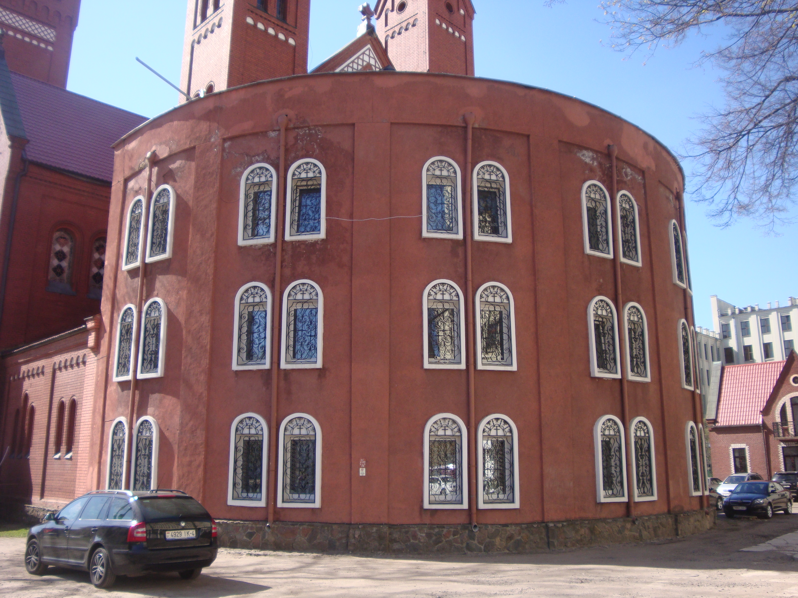 semicircle annexe to Church of Saints Simon and Helena (Minsk, Belarus), 2013 AD